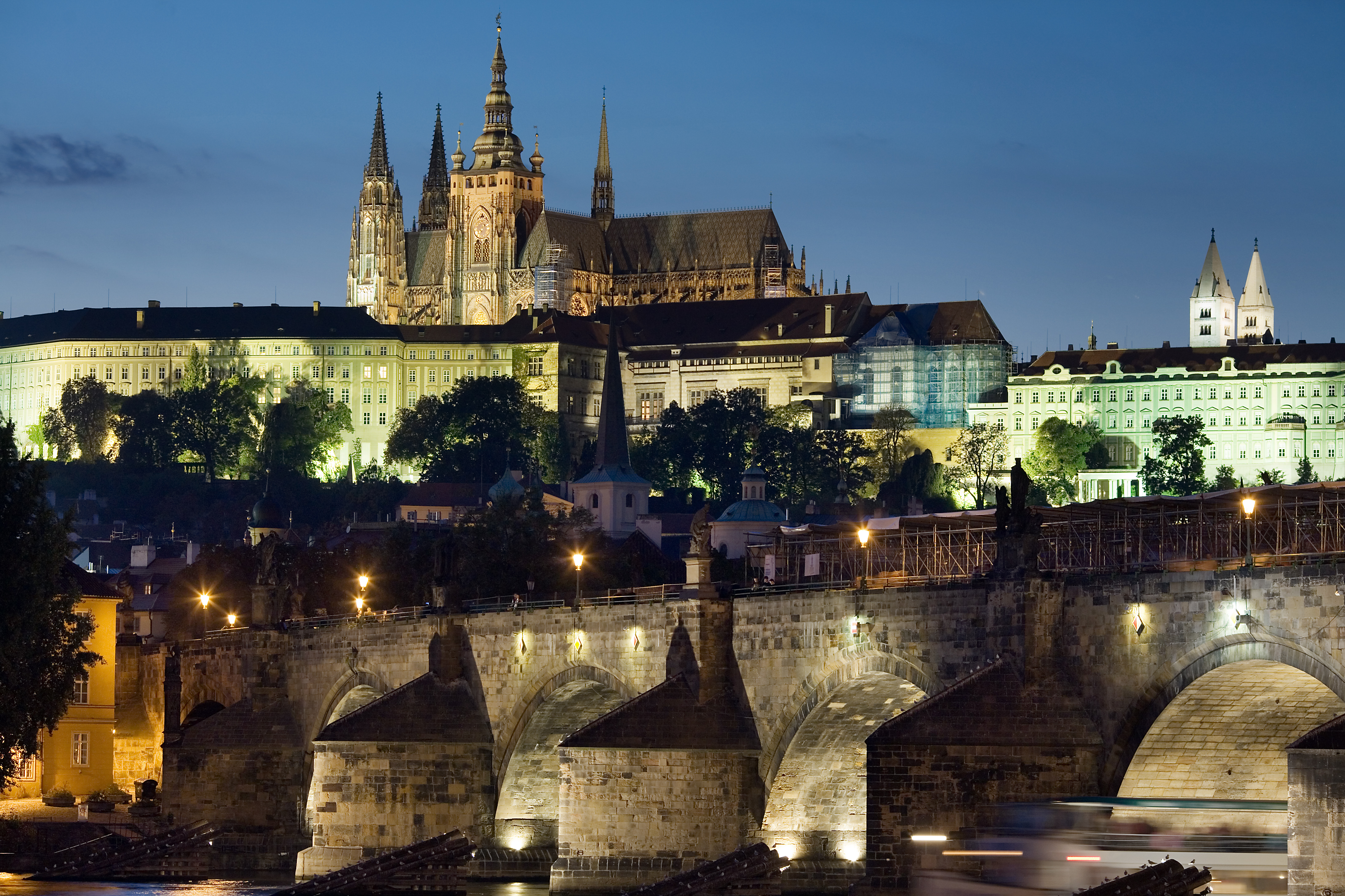 Night view of the Castle and Charles Bridge, Prague, Czech Republic